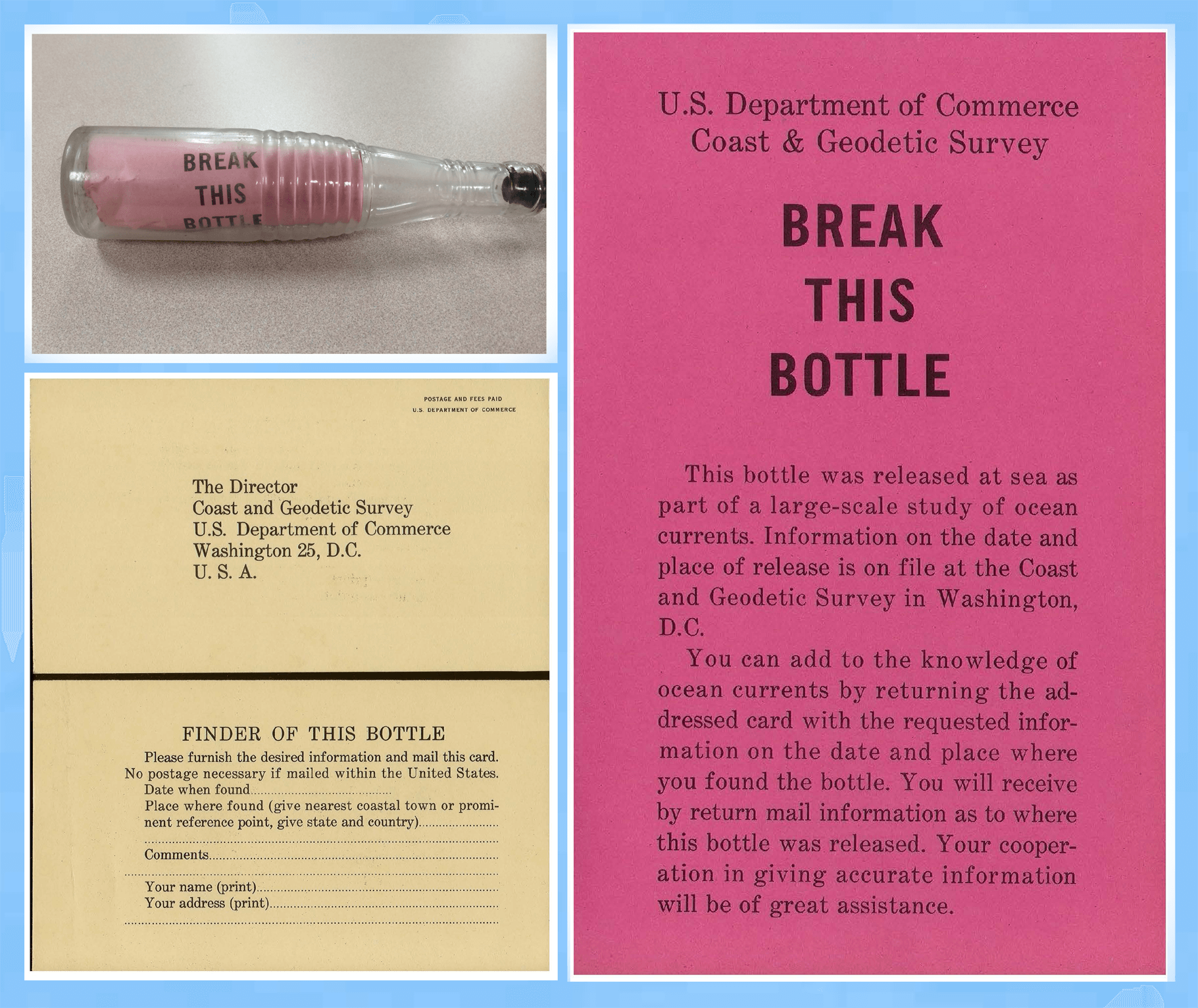 From source: Bottle in upper left: "The drift bottle found on Martha's Vineyard in December 2013. Photo credit: Shelley Dawicki, NEFSC/NOAA." Post card: "Both sides of a sample postcard placed inside Coast and Geodetic Survey drift bottles. When released, the ship's name, location and date of release, and the bottle number were stamped or handwritten on the card. Photo credit: NOAA." Break this Bottle page: "This sheet was also inside the drift bottles. A faded sheet is visible in the bottle pictured above found in December 2013. Photo credit: NOAA."